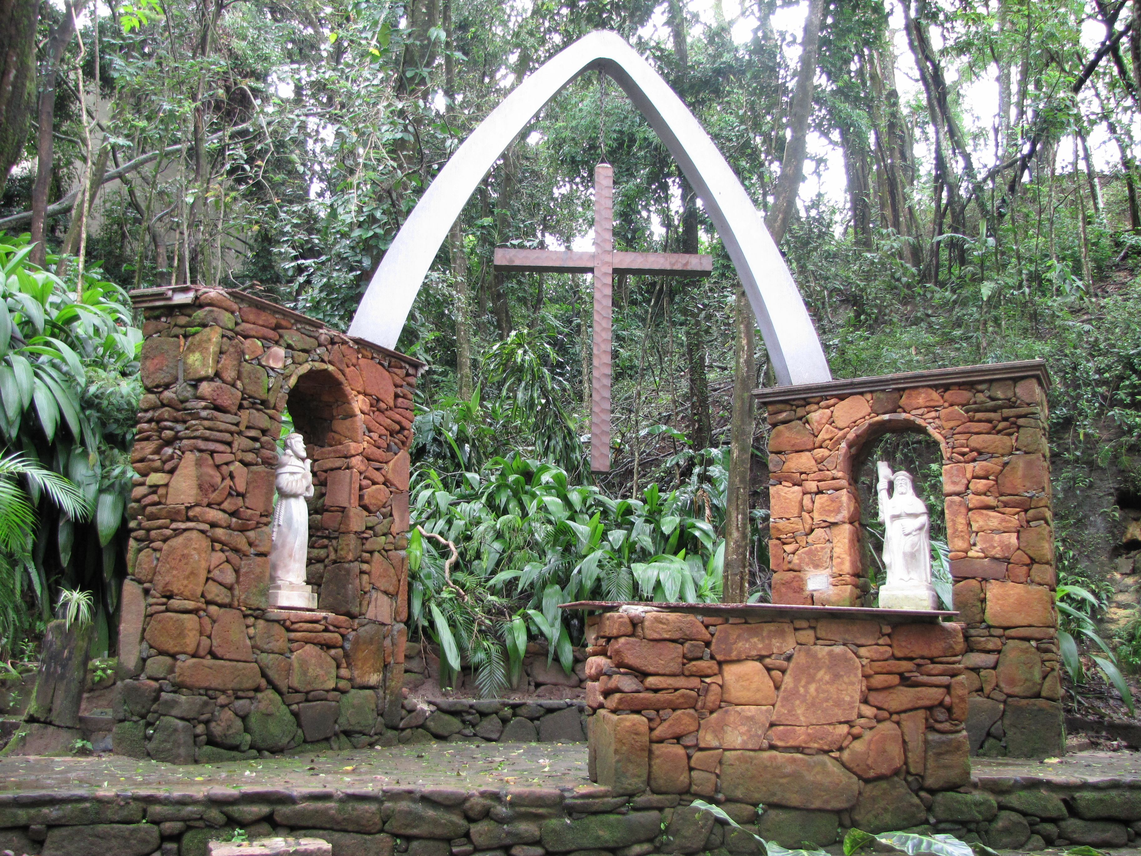 House of St. James, in Águas de São Pedro's Municipal Garden.